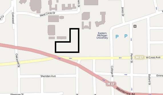 Map showing the boundaries of the Eastern Michigan University Historic District in Ypsilanti, Michigan, United States. The historic district is listed on the National Register of Historic Places. Boundaries are derived from the map attached to the district's National Register nomination form.